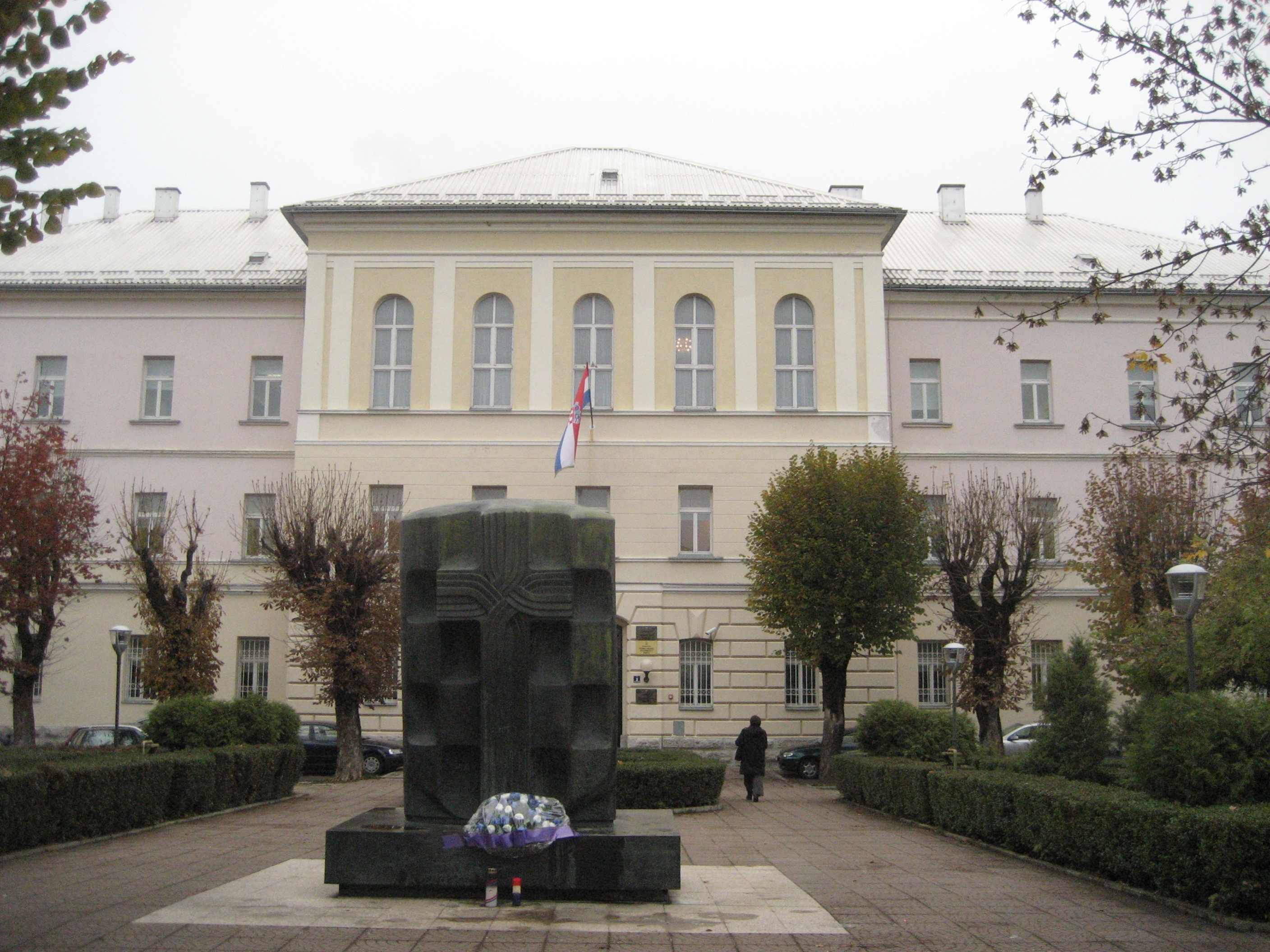 Memorial for the defenders of Gospic 1991-1995